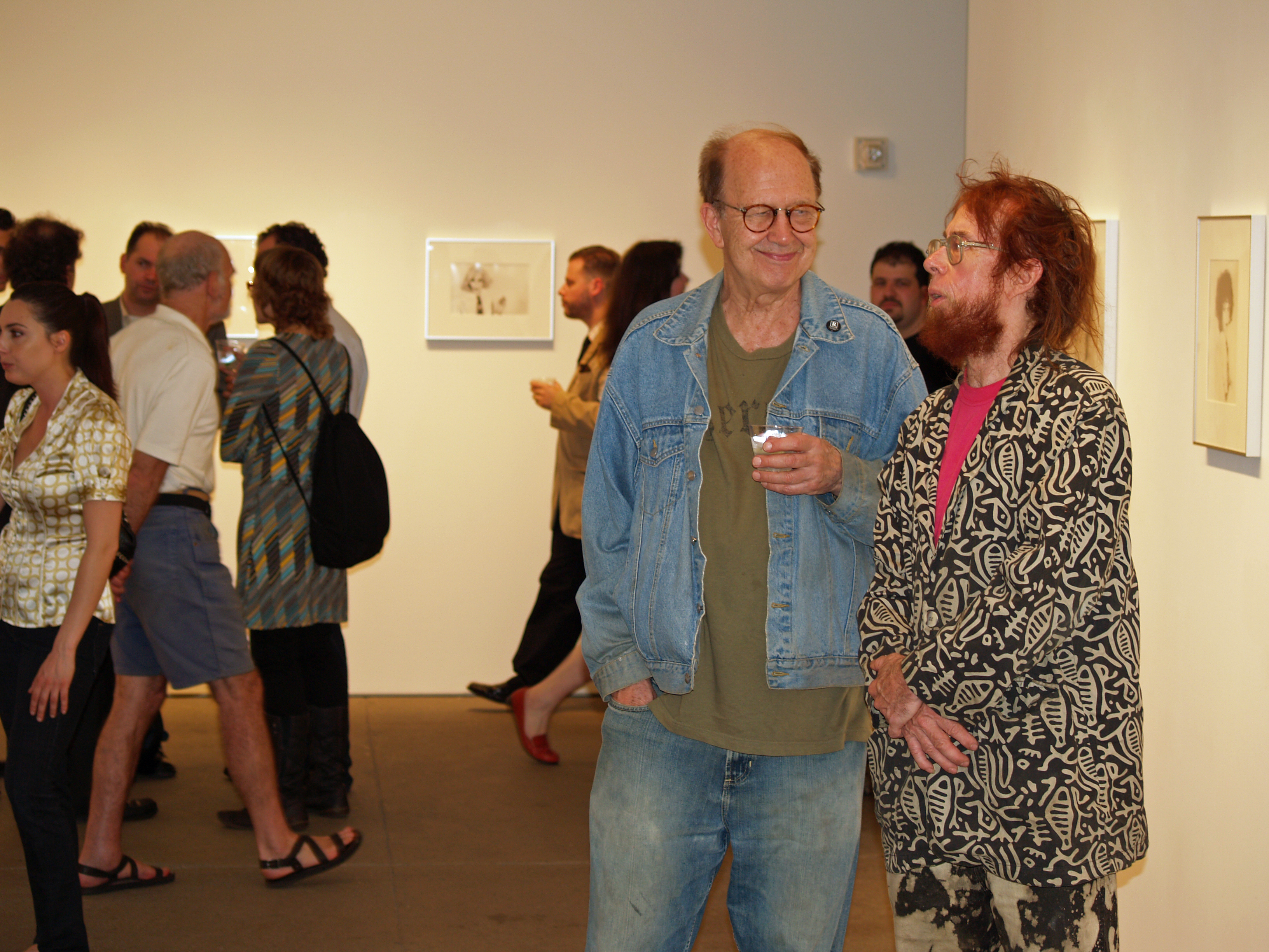 Yancey Richardson gallery, New York, USA. Contemporary art exhibition. Photo taken by David Shankbone